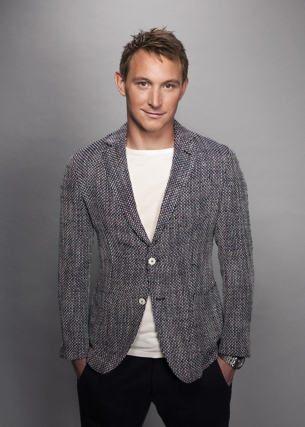 Swedish football player Kim Källström.